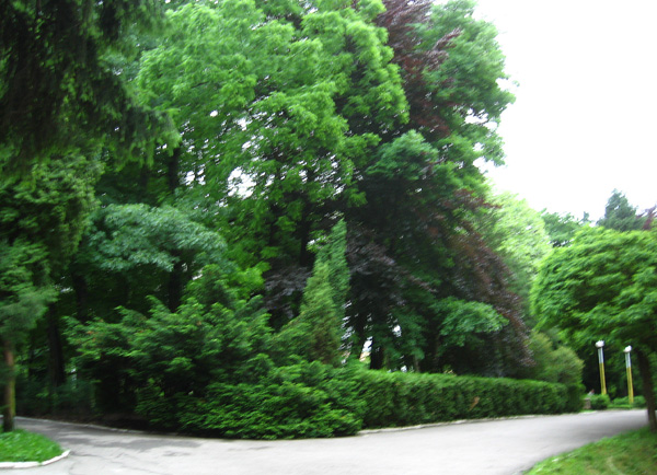 National Forestry University of Ukraine Botanical Garden